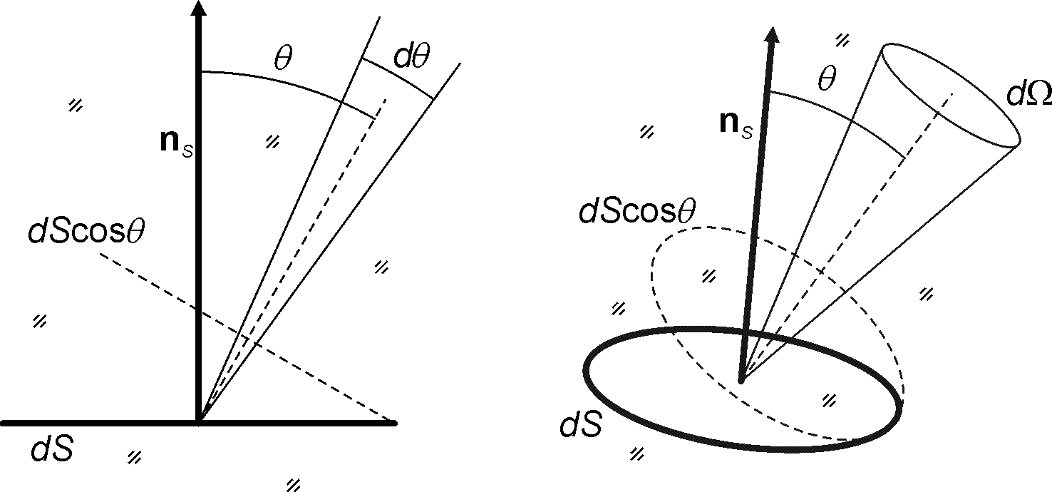 A diagram showing the etendue for a differential surface element in two dimensions (left) and three dimensions (right).